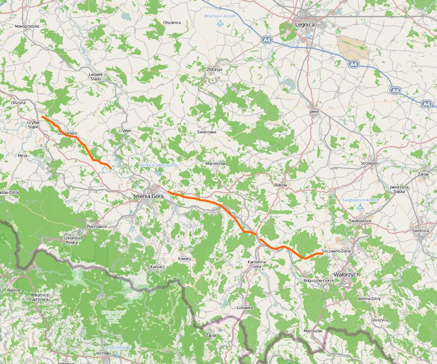 Track of powerlines in Silesia, used before 1945 for power supply of electric trains. The map was made with Openstreetmap-Data. Please correct, if required!